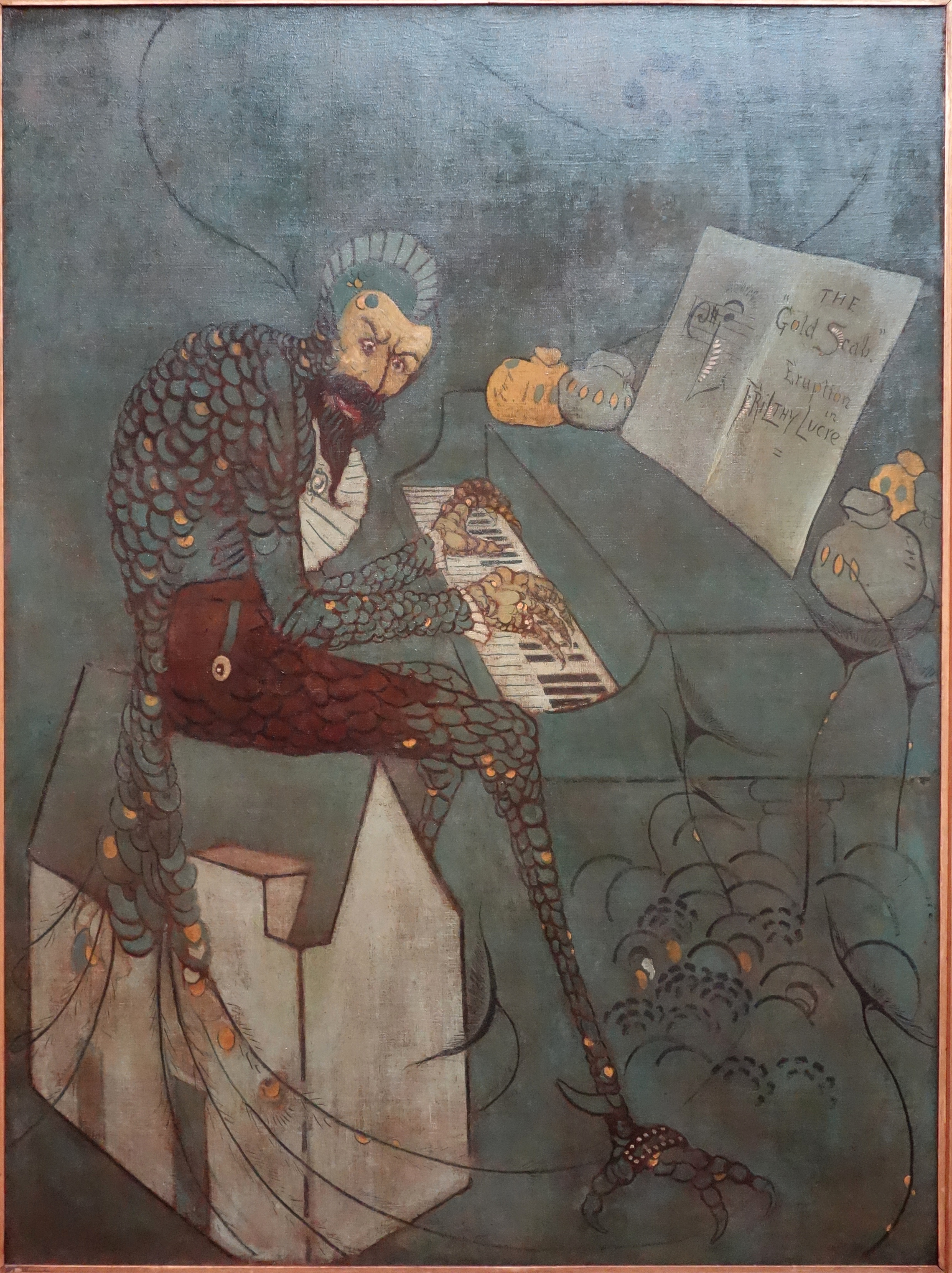 Exhibit in the De Young Museum, San Francisco, California, USA. This artwork is in the public domain because the artist died more than 70 years ago.